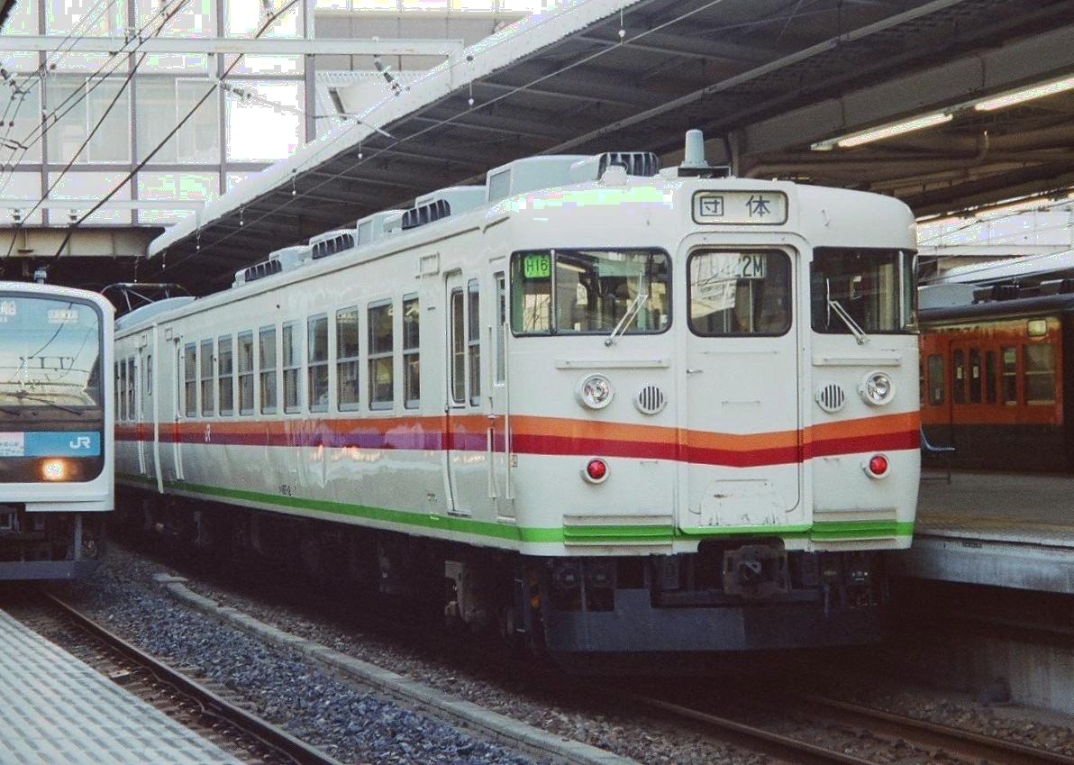 Eest Japan Railway Type 167 Train(Japan). A train chartered for a group. It takes a picture from the home at TouhokuLine OmiyaStation. JR東日本167系電車の団体専用列車。 JR大宮駅にて撮影。 この167系電車は田町電車区に配置されていた車両（H16編成）である。 JR化後、塗装変更と座席を簡易リクライニングシートに交換する等の改造を施された。